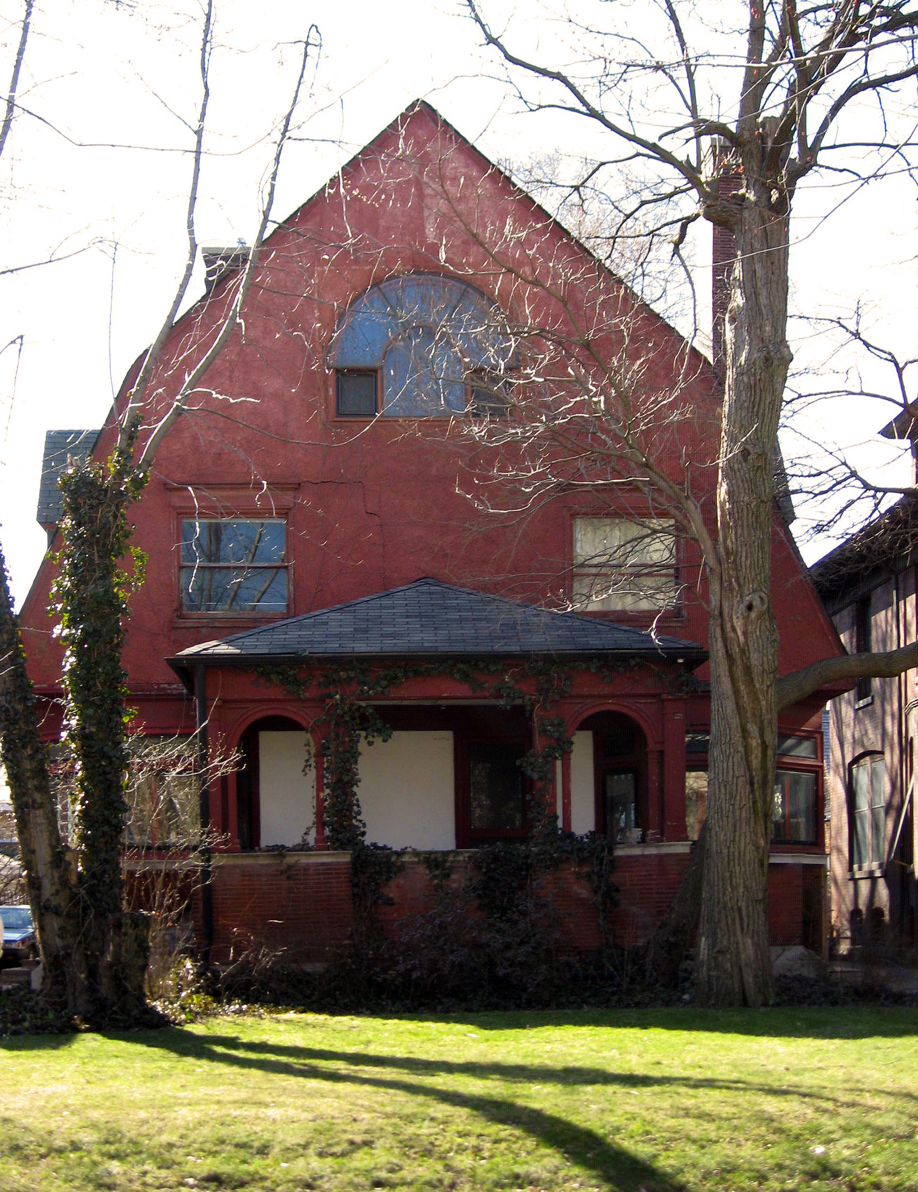 Warren McArthur House (1892) 4852 S Kenwood Ave Chicago, IL 60615 Architect: Frank Lloyd Wright